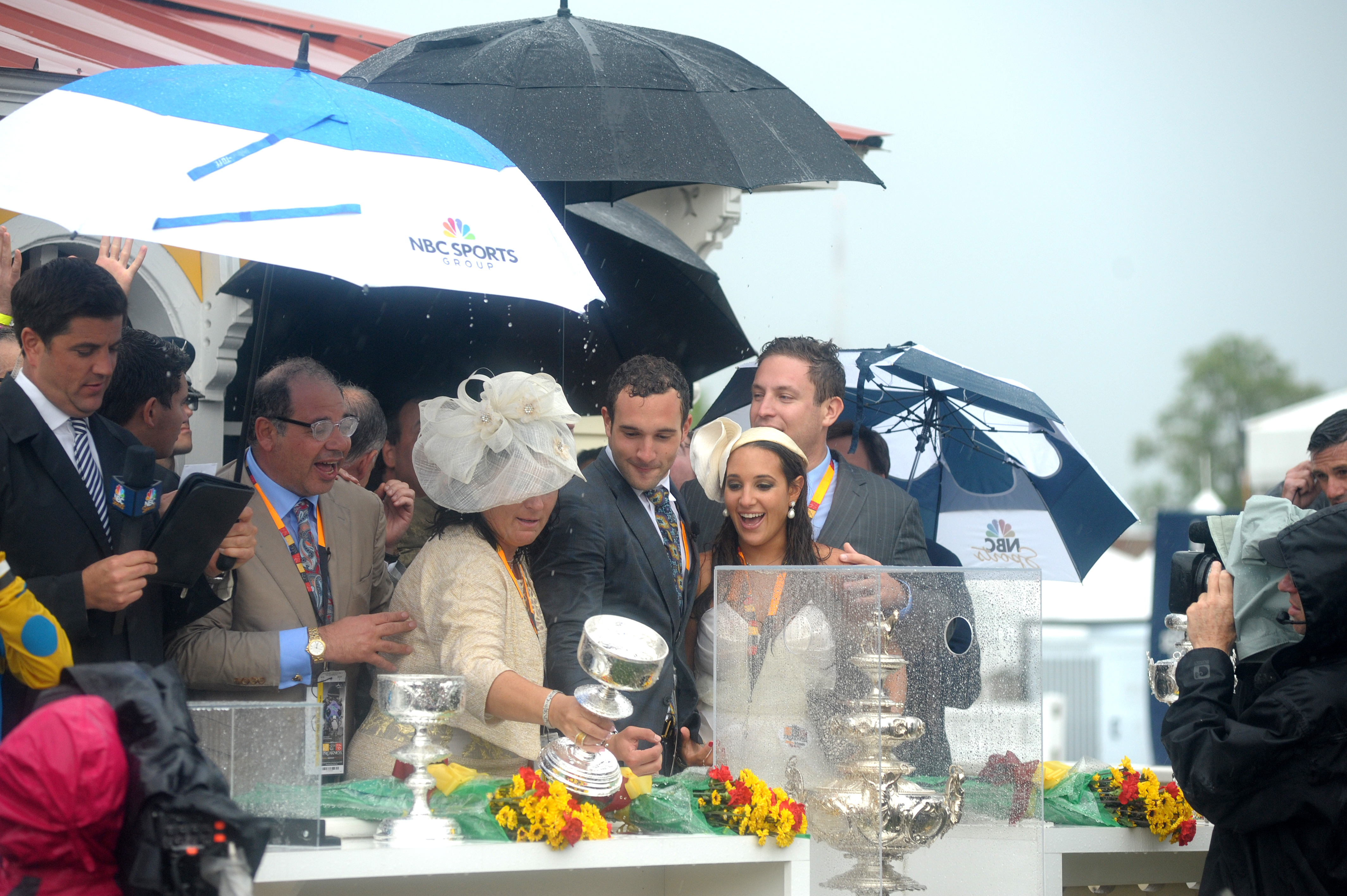 Governor Hogan attends 2015 Preakness Stakes by Tom Nappi at Pimlico, Baltimore, Maryland 2015 Preakness Stakes at Pimlico. A thunderstorm resulted in sloppy track conditions.